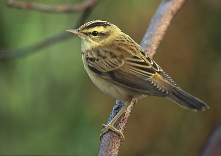 Acrocephalus schoenobaenus